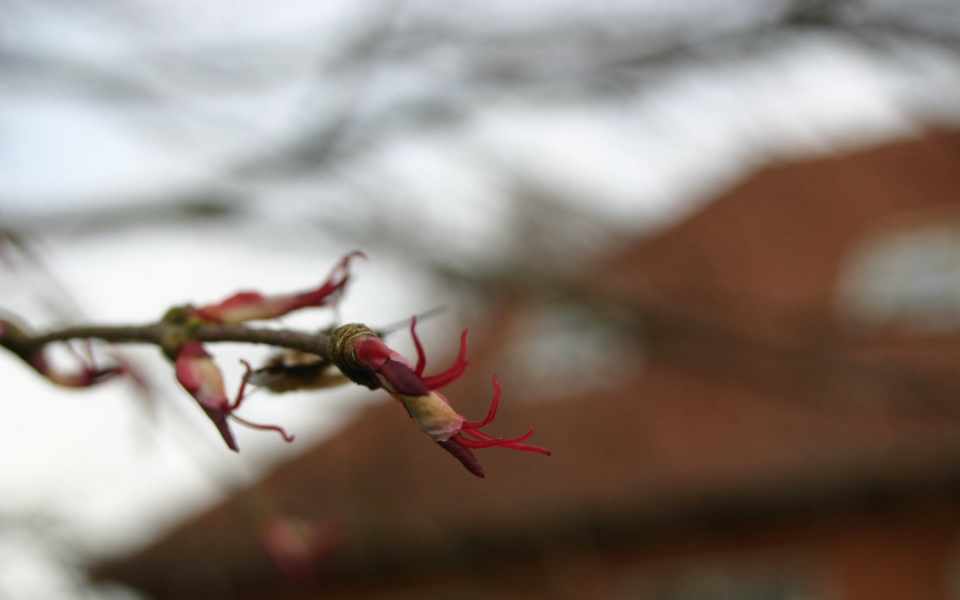 Cercidiphyllum japonicum: Female flower